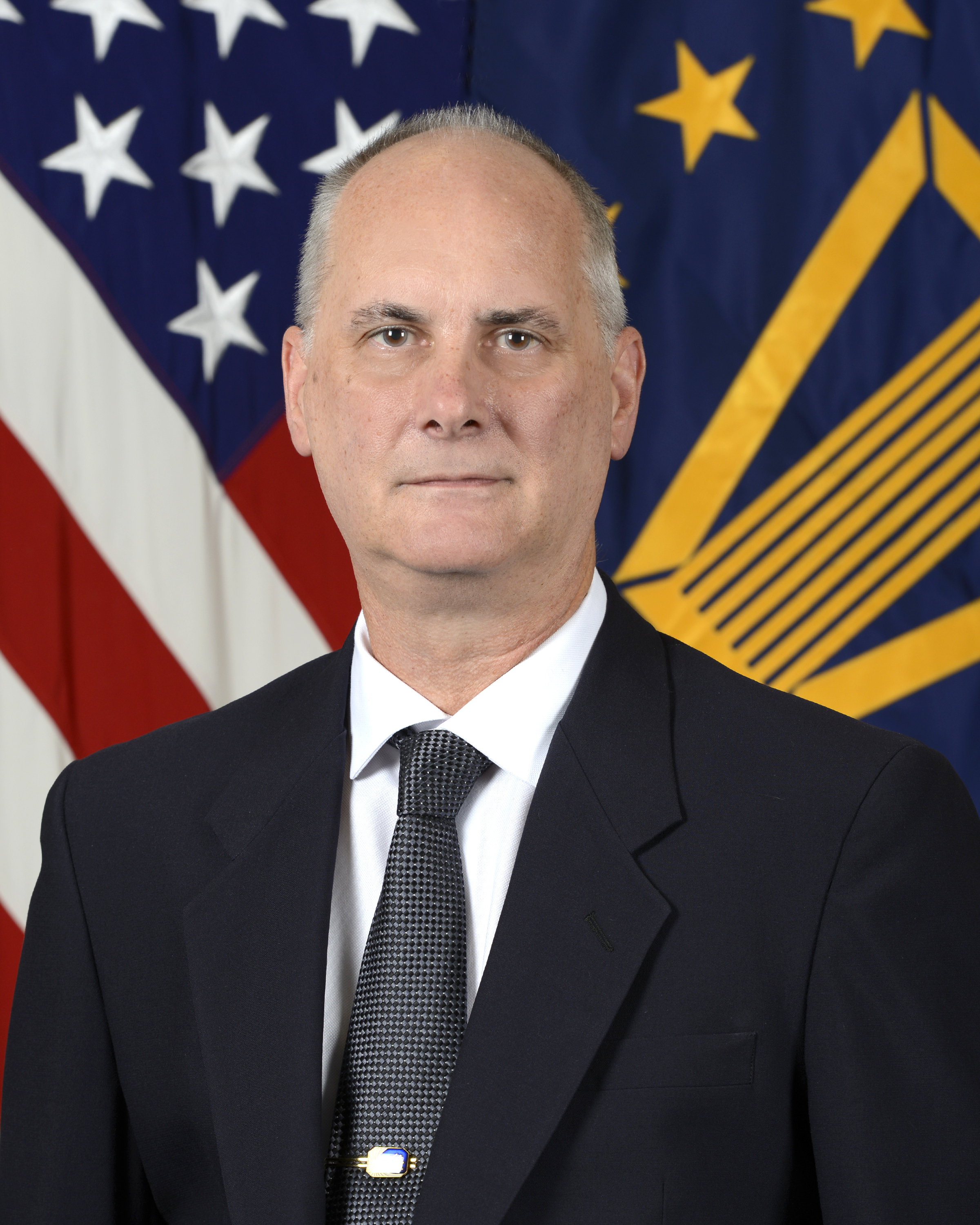 Richard Landolt, Defense Advisor to the U.S. Ambassador to NATO, poses for his official portrait in the Army portrait studio at the Pentagon in Arlington, Virginia, Aug. 8, 2017. (U.S. Army photo by Monica King/Released)